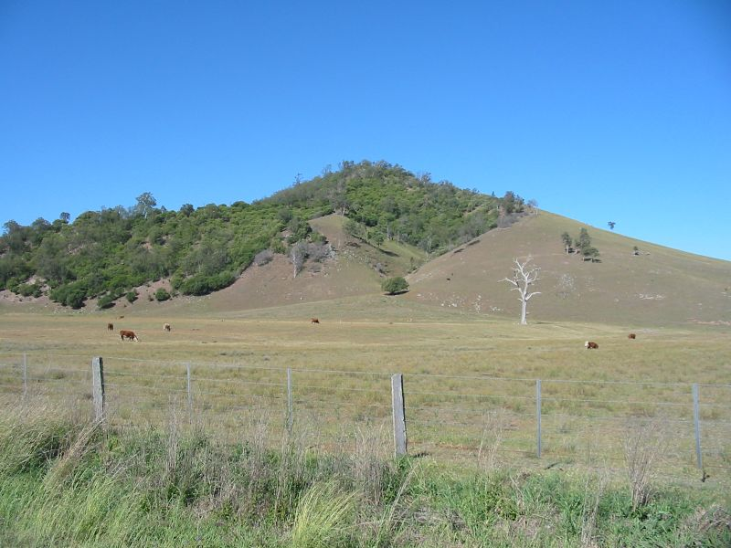 In the Australian wine region of the Hunter Valley in New South Wales